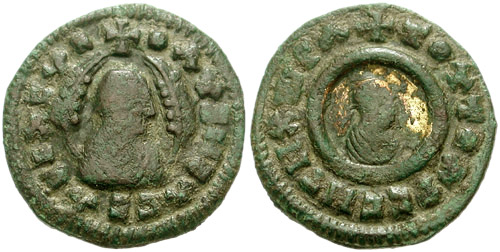 Coin of the Axumite king Ouzabas